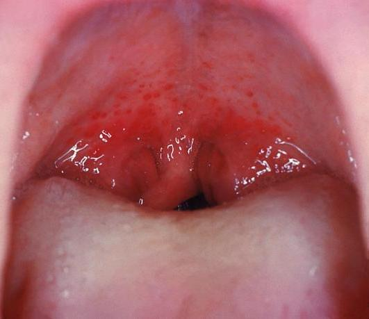 Note the redness and edema of the oropharynx, and petechiae, or small red spots, on the soft palate caused by Strep throat. Strep throat is caused by group A streptococcus bacteria. These bacteria are spread through direct contact with mucus from the nose or throat of persons who are infected, or through contact with infected wounds or sores on the skin.